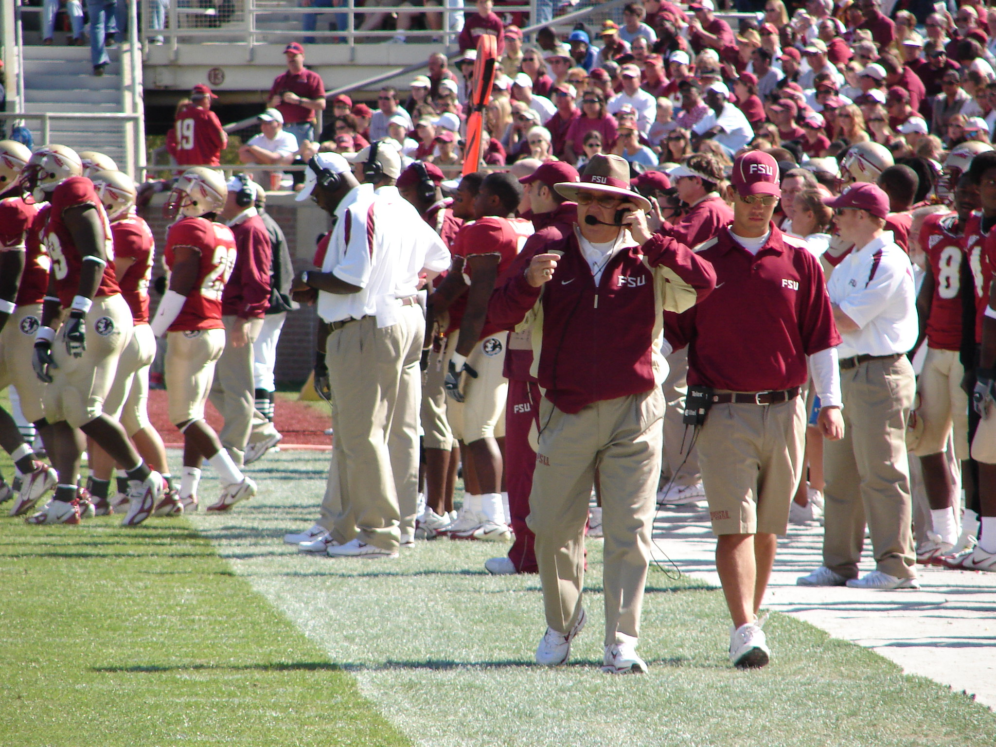 Bobby Bowden (en), head coach of Florida State University on the sidelines of the football game against Virginia on November 4, 2006